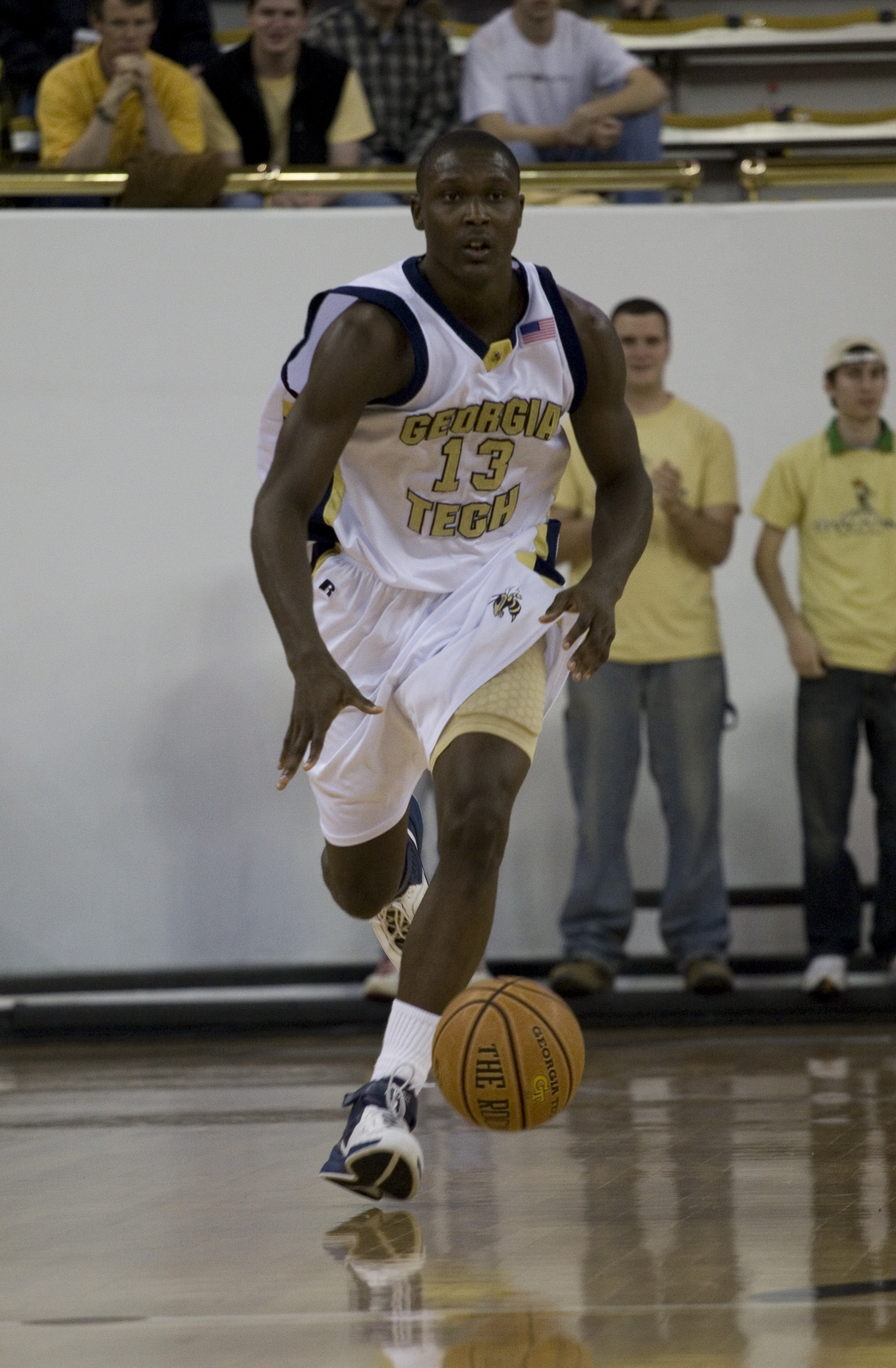 Description: D'Andre Bell at a 2006-07 Georgia Tech Yellow Jackets men's basketball team vs Centenary Gentlemen basketball game Source: [1] on [2] on flickr